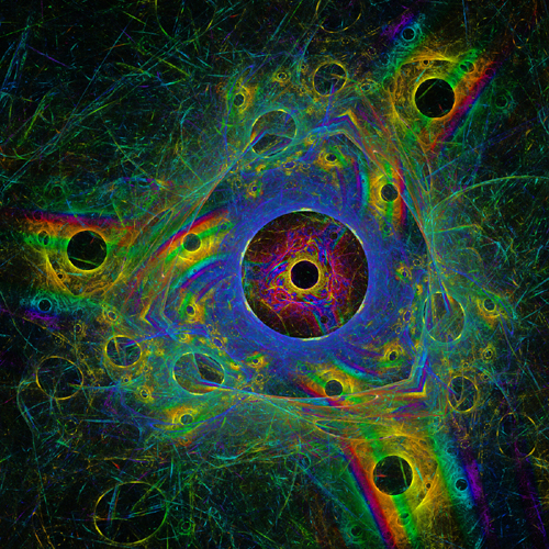 fractalmandala by Alexa Szlávics artist